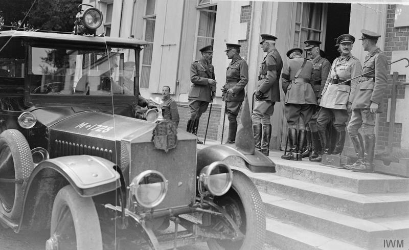 The Official Visits To the Western Front, 1914-1918 King George V arrives at GHQ at Montreuil and is welcomed on the steps of the Chateau de Beaurepaire by Field Marshal Douglas Haig and other GHQ Generals, 7 August 1918.